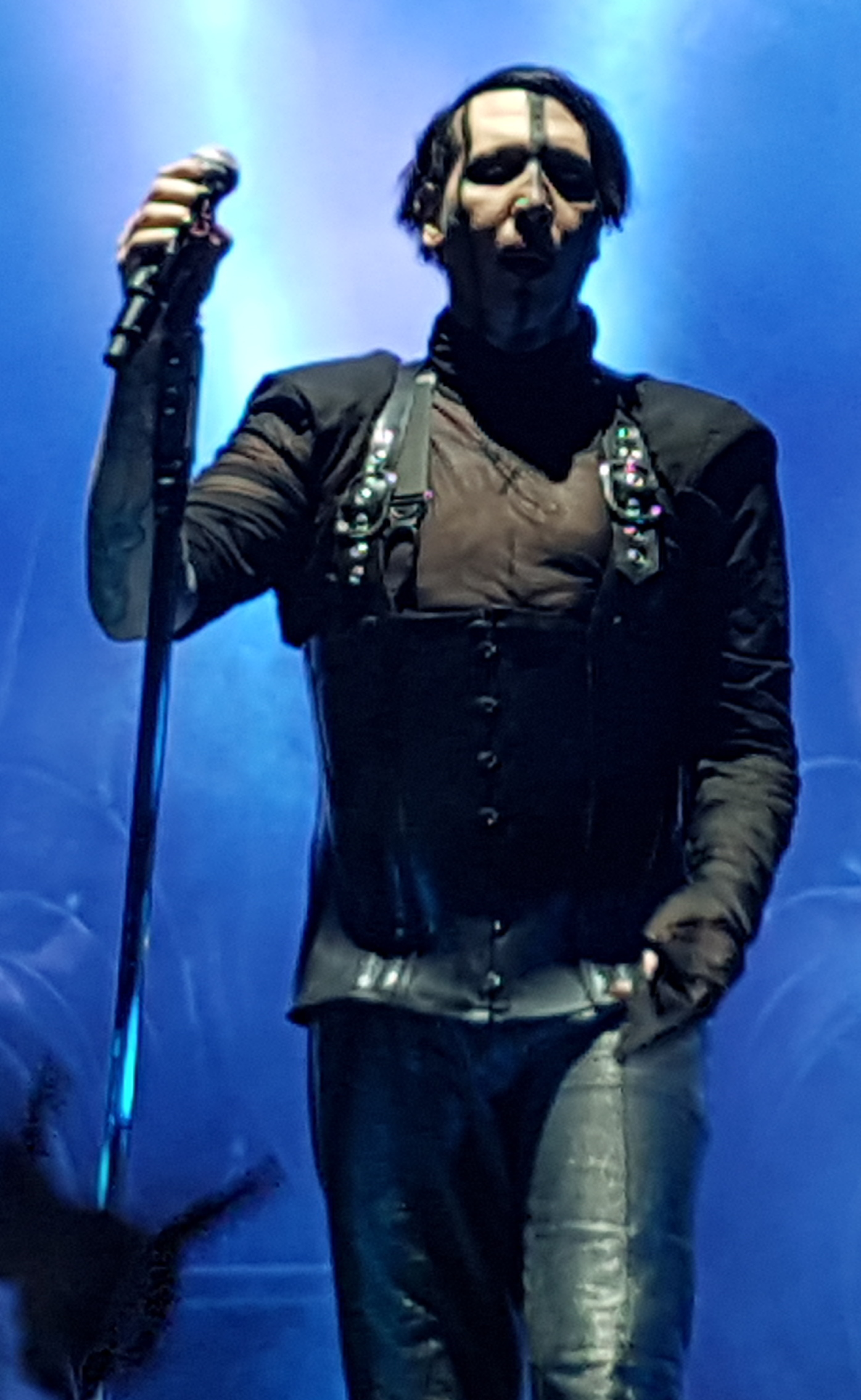 The band's vocalist performing live at Stage AE, Pittsburgh, Pennsylvania on September 29, 2017.